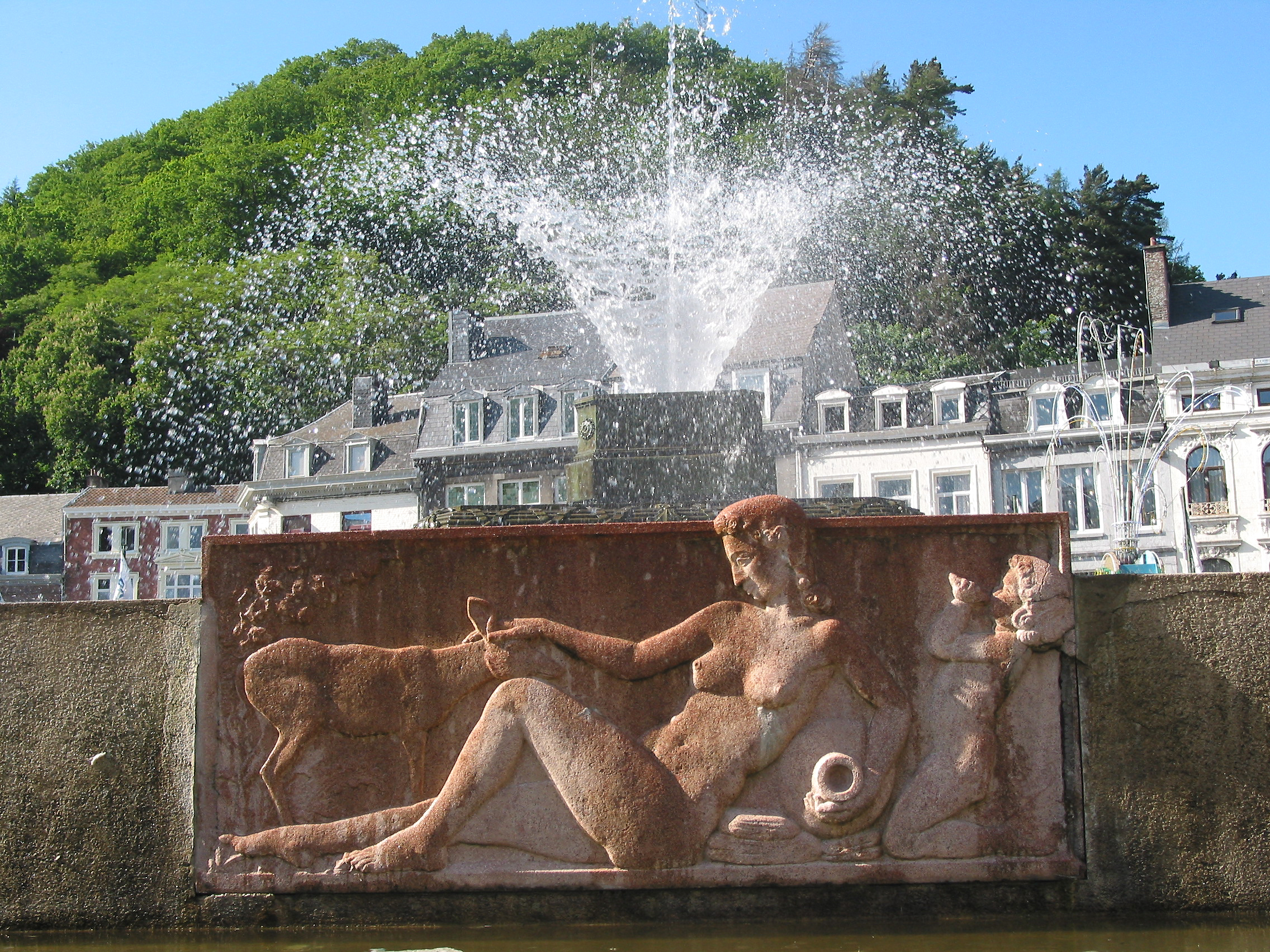 Spa, Belgium, the fountain of the Casino gardens.